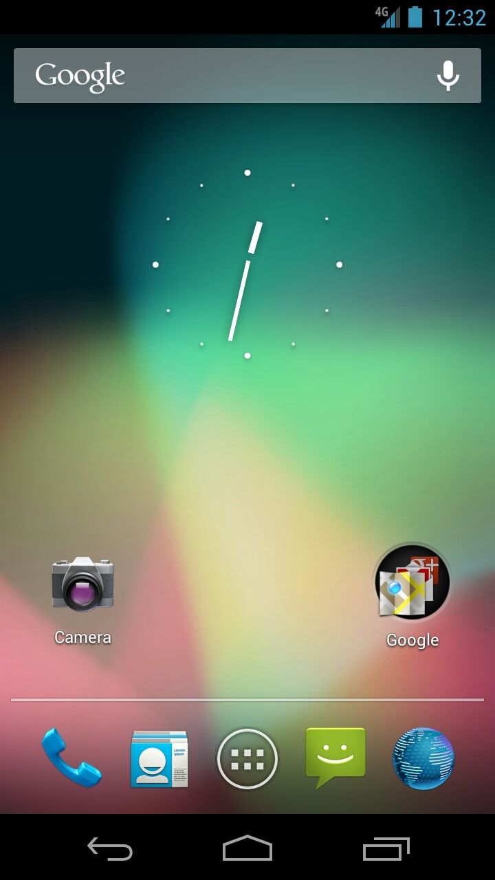 Home screen displayed by Samsung Galaxy Nexus, running Android 4.1 "Jelly Bean"